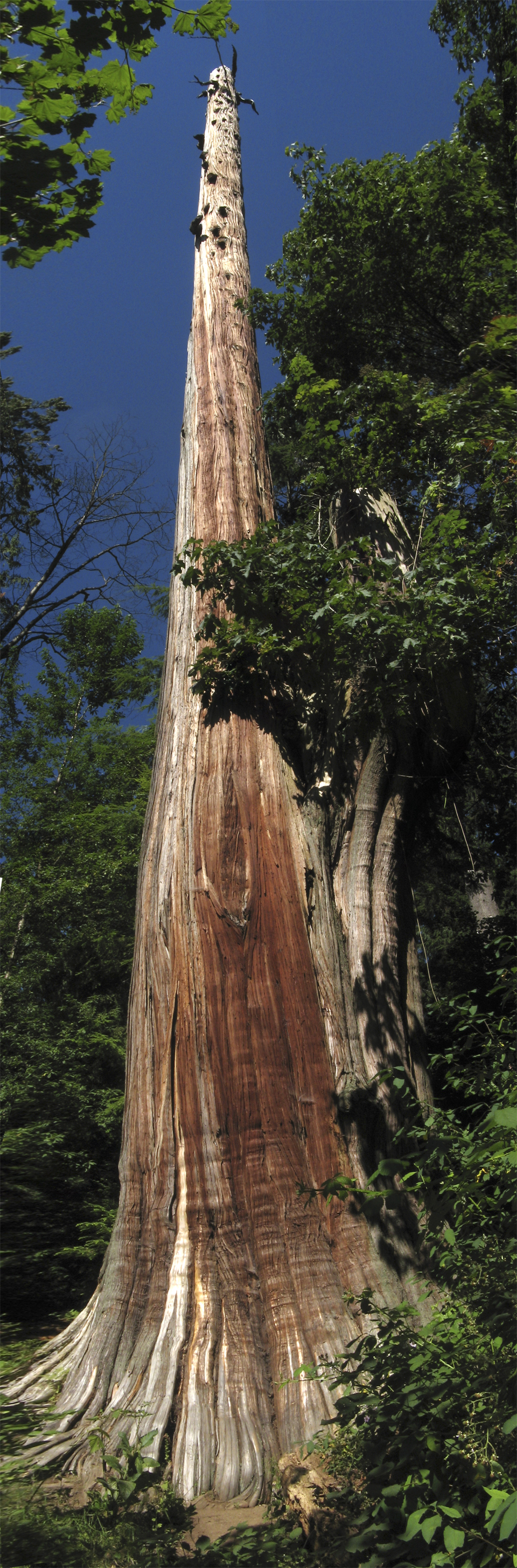 National Geographic Tree